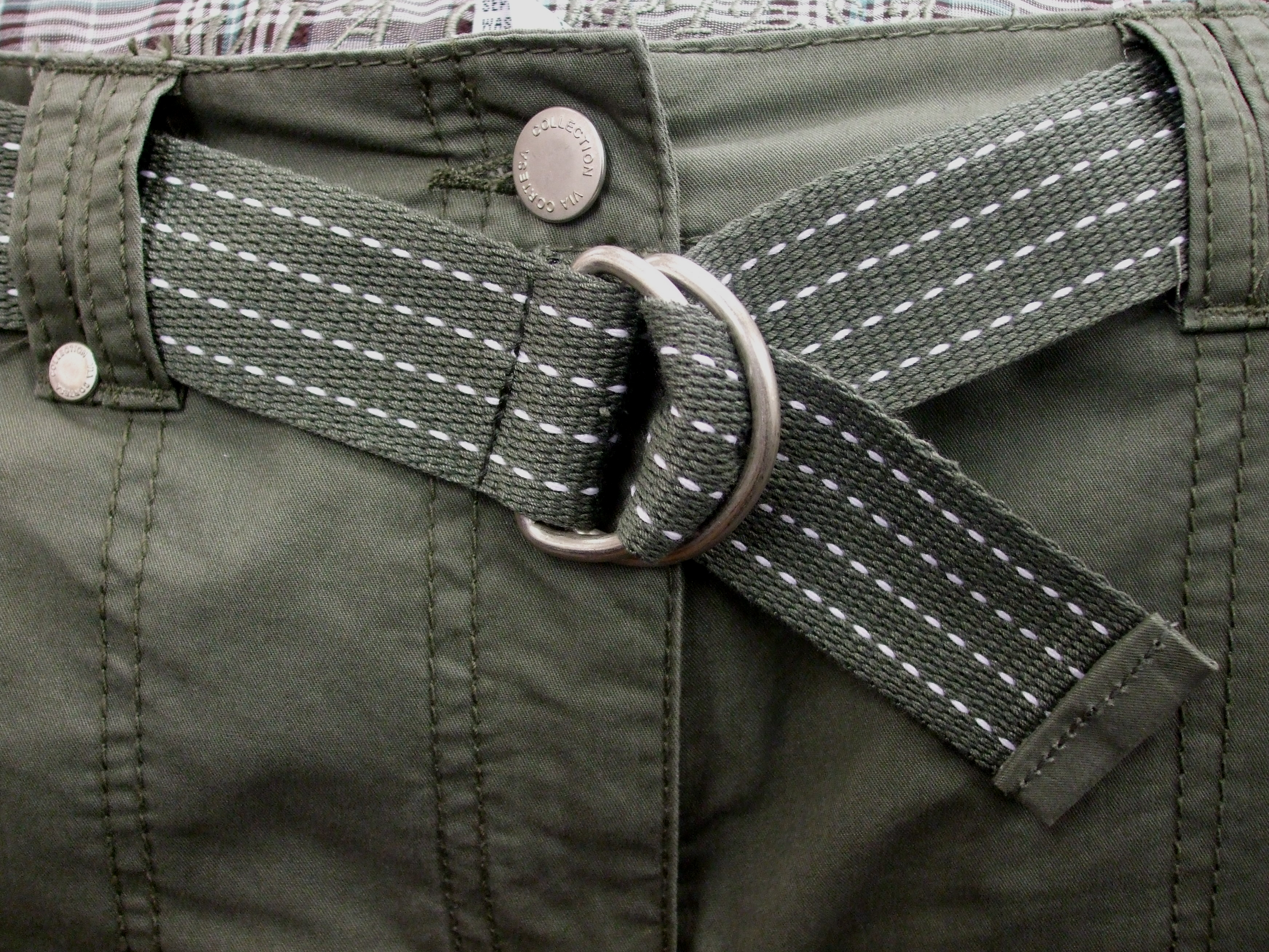 DD-Belt closer